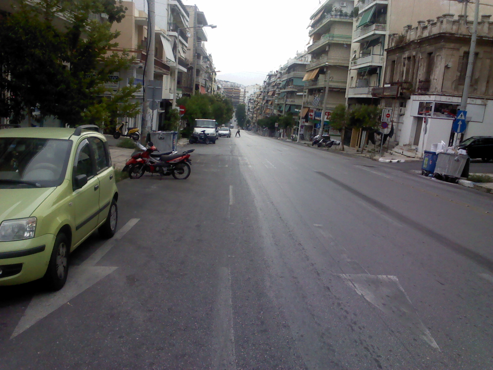 Street Xatzikiriakou in Idraiika